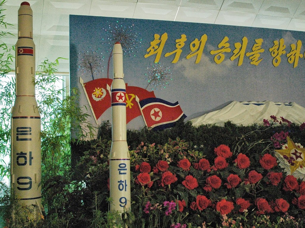 A model of the "Unha-9" missile on display at a floral exhibition in Pyongyang (Credit: Steve Herman / VOA News 26 July, 2013 Pyongyang)